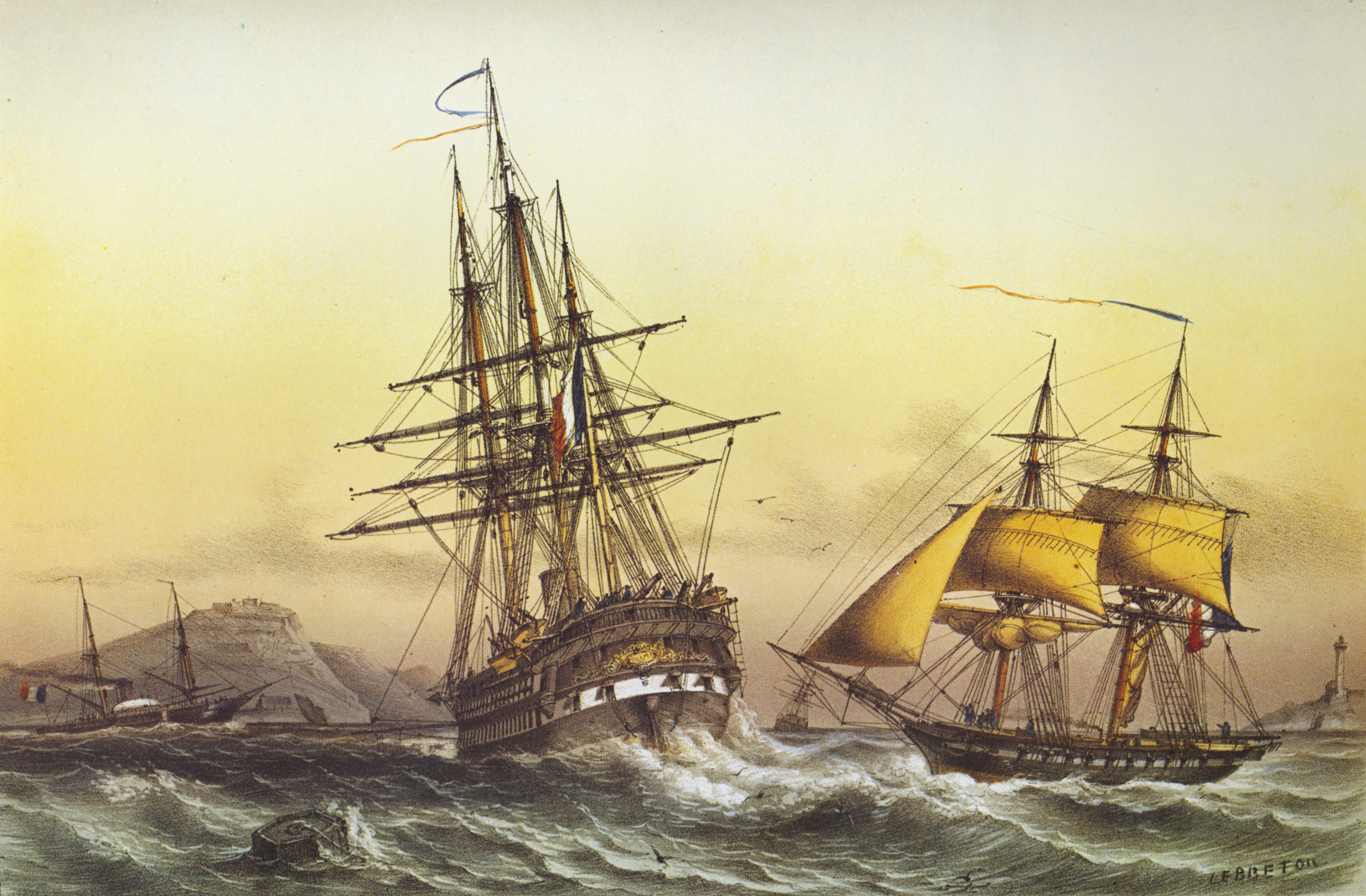 The Duquesne